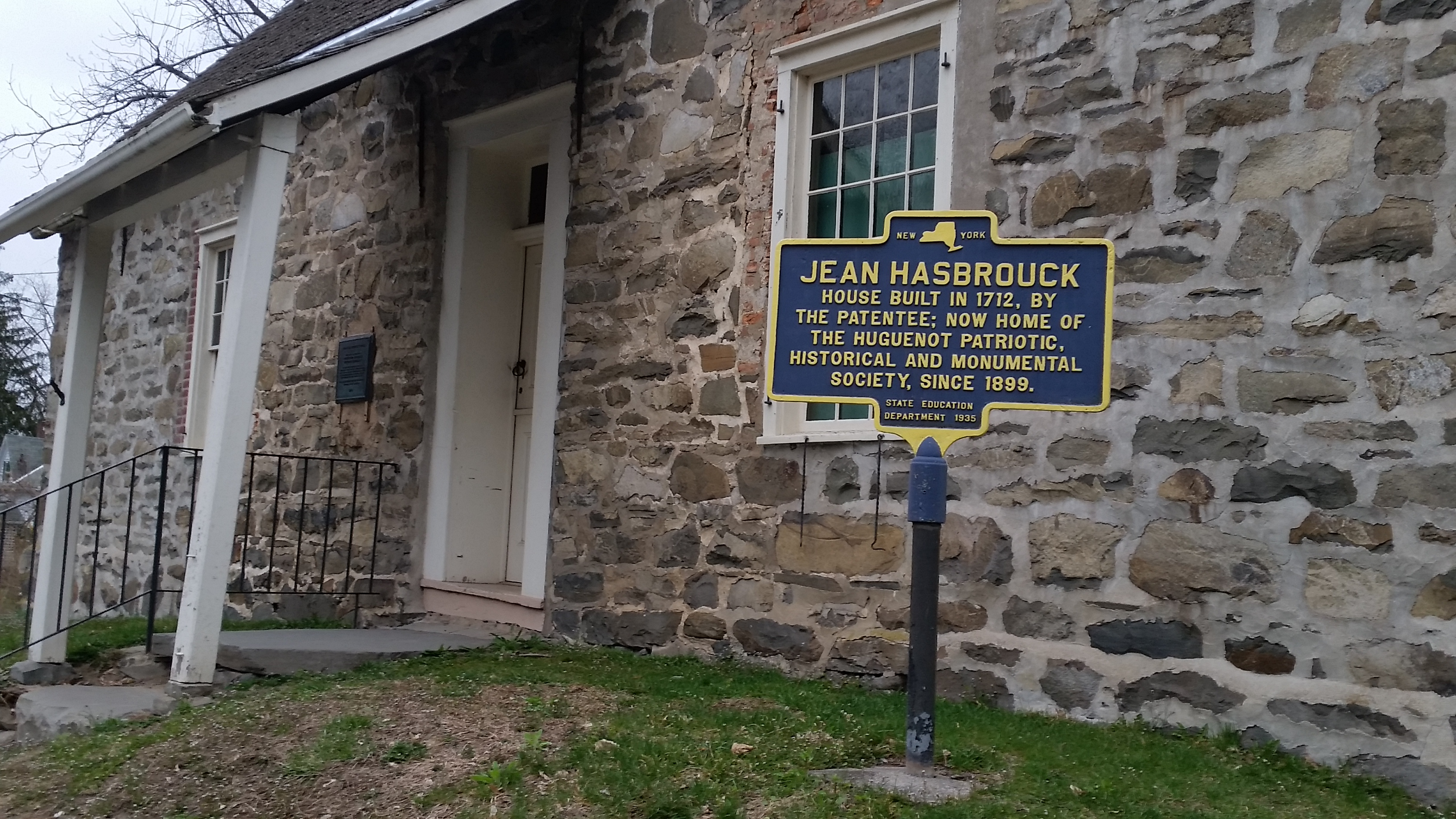 NY State Historic Marker at New Paltz's Huguenot Street Historic District for the Jean Hasbrouck House